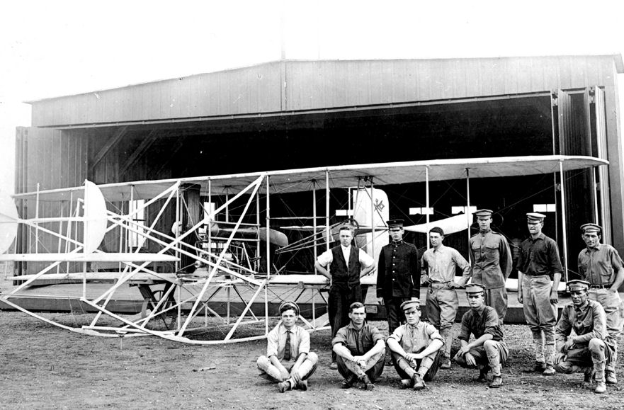 Signal Corps Plane No. 1 and crew at Fort Sam Houston, Texas, in May 1910. Oliver George Simmons back row left wearing vest